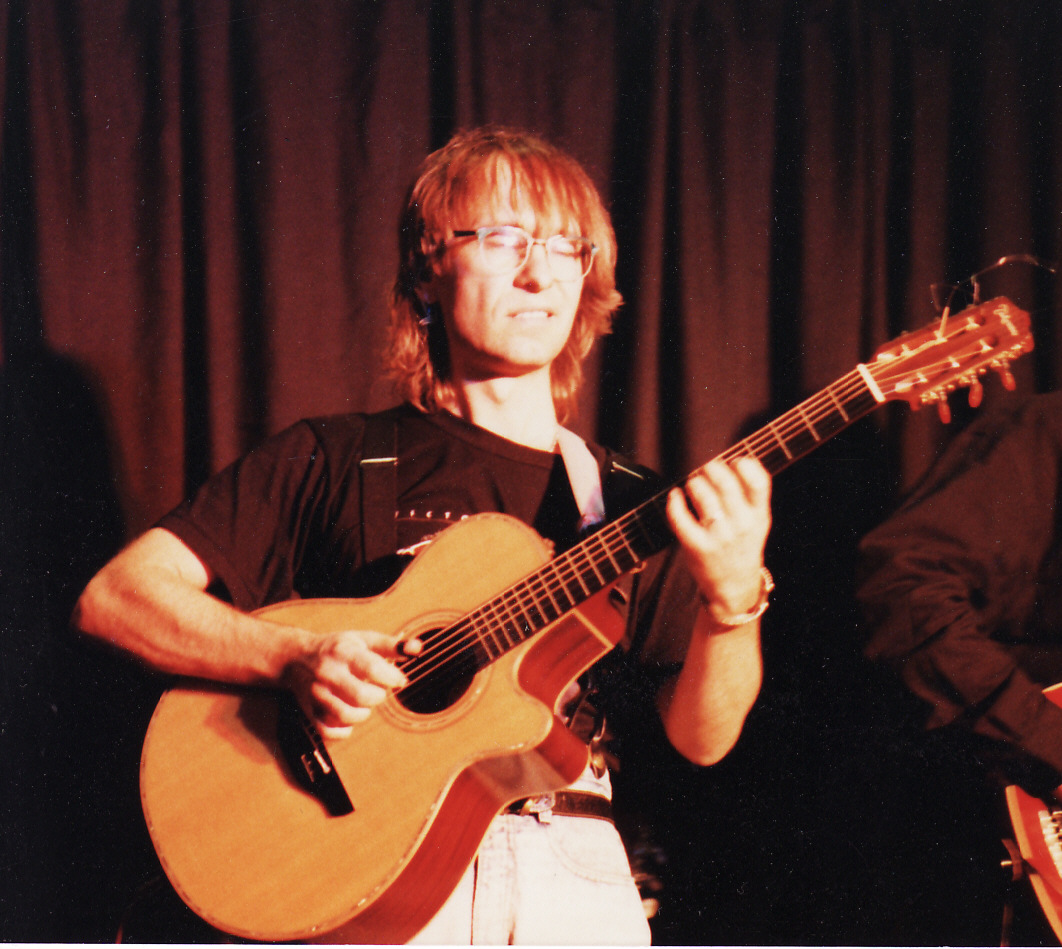 Pit Budde